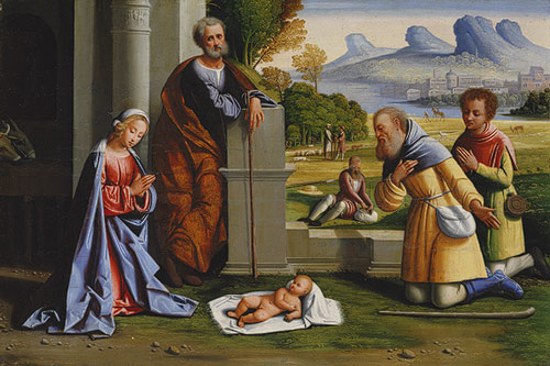 The Adoration of the Shepherds